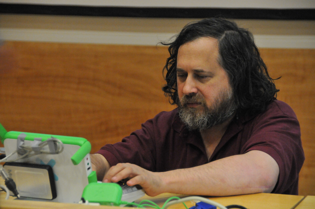 Richard Stallman preparing to speak at Cambridge University, England (Apr 30, 2008).